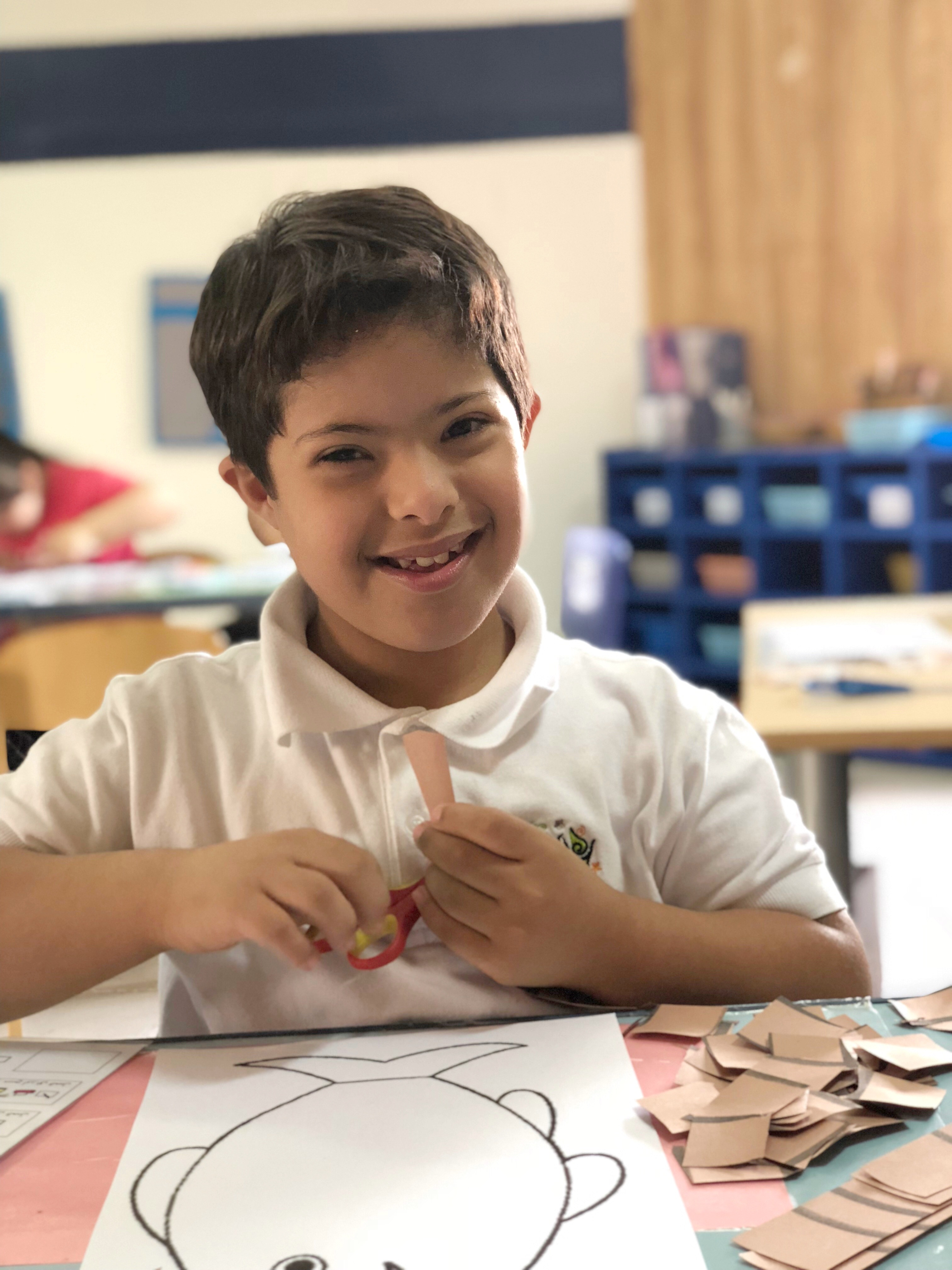 أحد الأنشطة المقدمة في تطوير المهارات الحركية الدقيقة